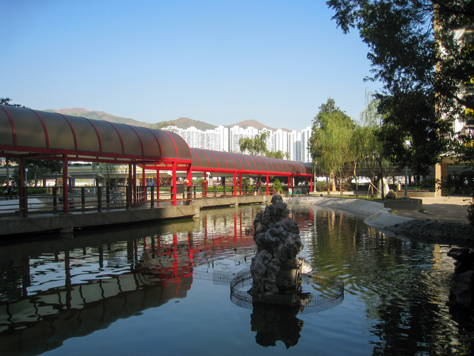 Ching Tai Court Pond